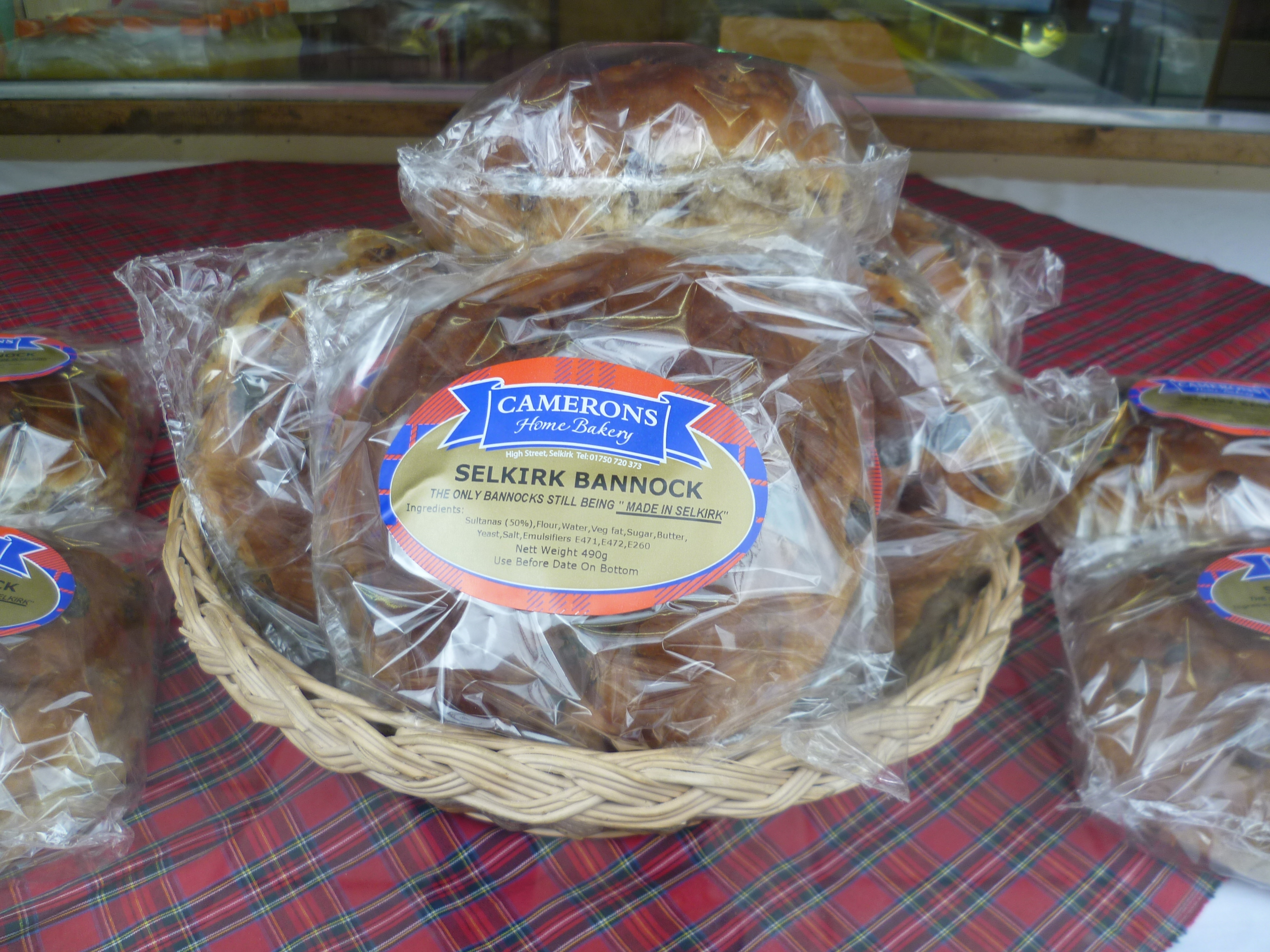 A variety of bannock traditionally made in the town of Selkirk in the Scottish Borders